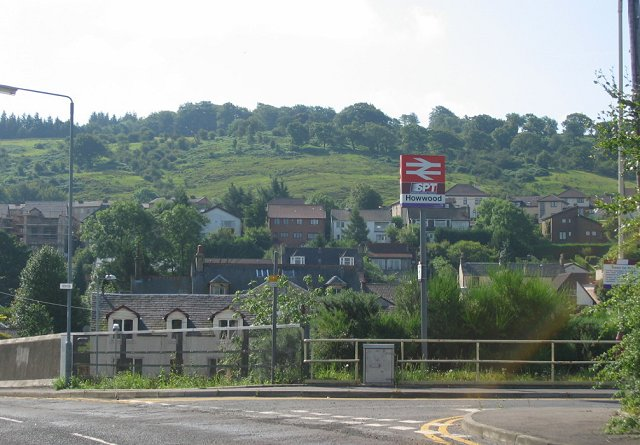 Howwood. Two 'w' s clash!